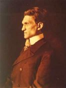 Portrait of Stefan George in 1910